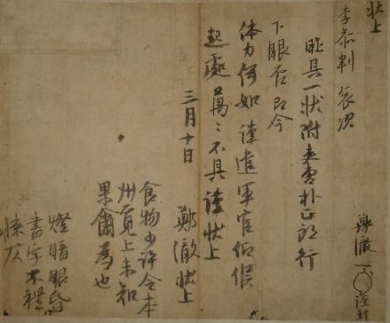 Letter of Songgang Chung Cheol